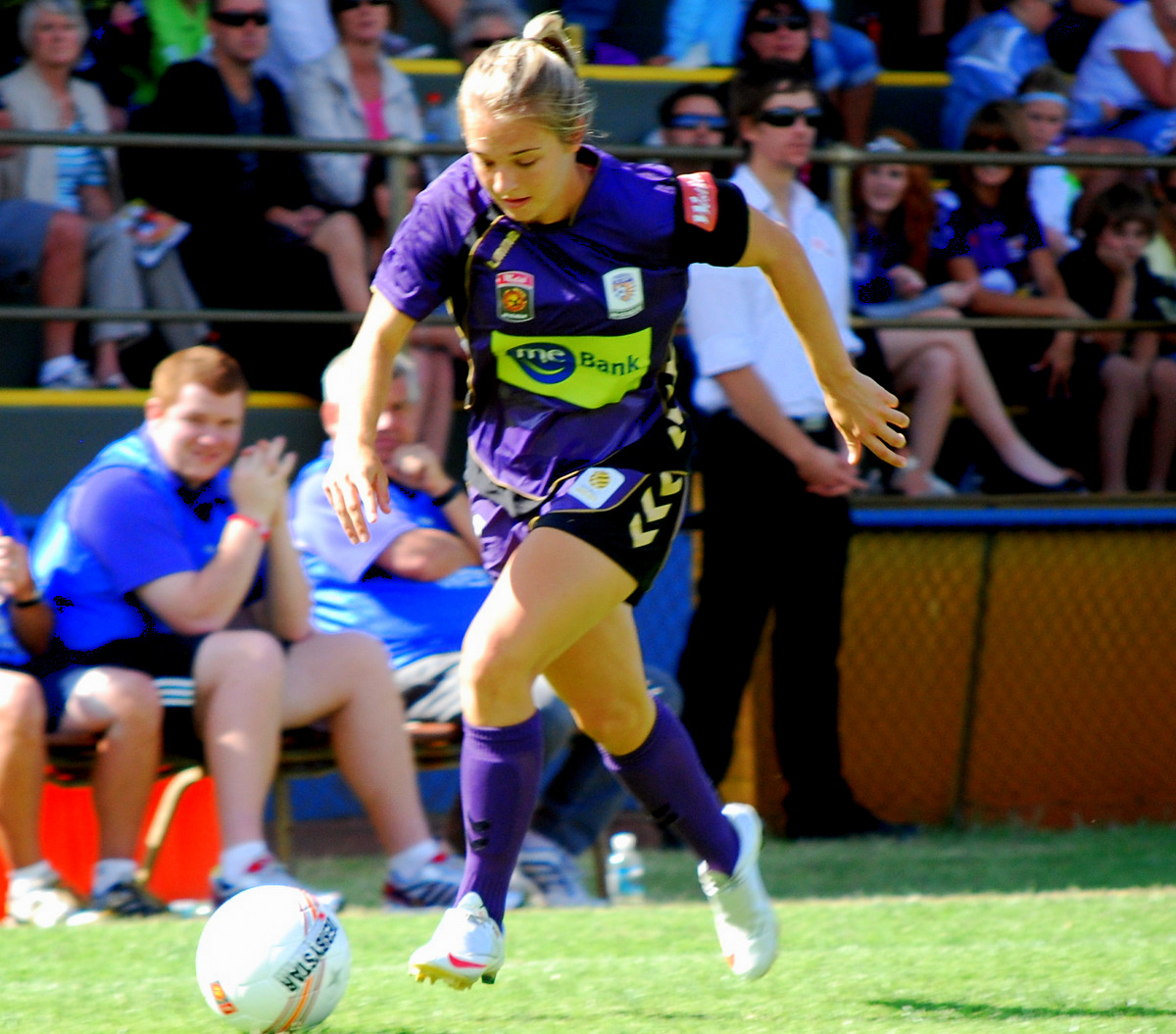 Marianna Tabain in action for WA side Perth Glory in the W-League